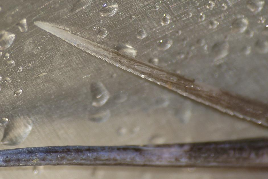 Stinger of the stingray (Dasyatis pastinaca).